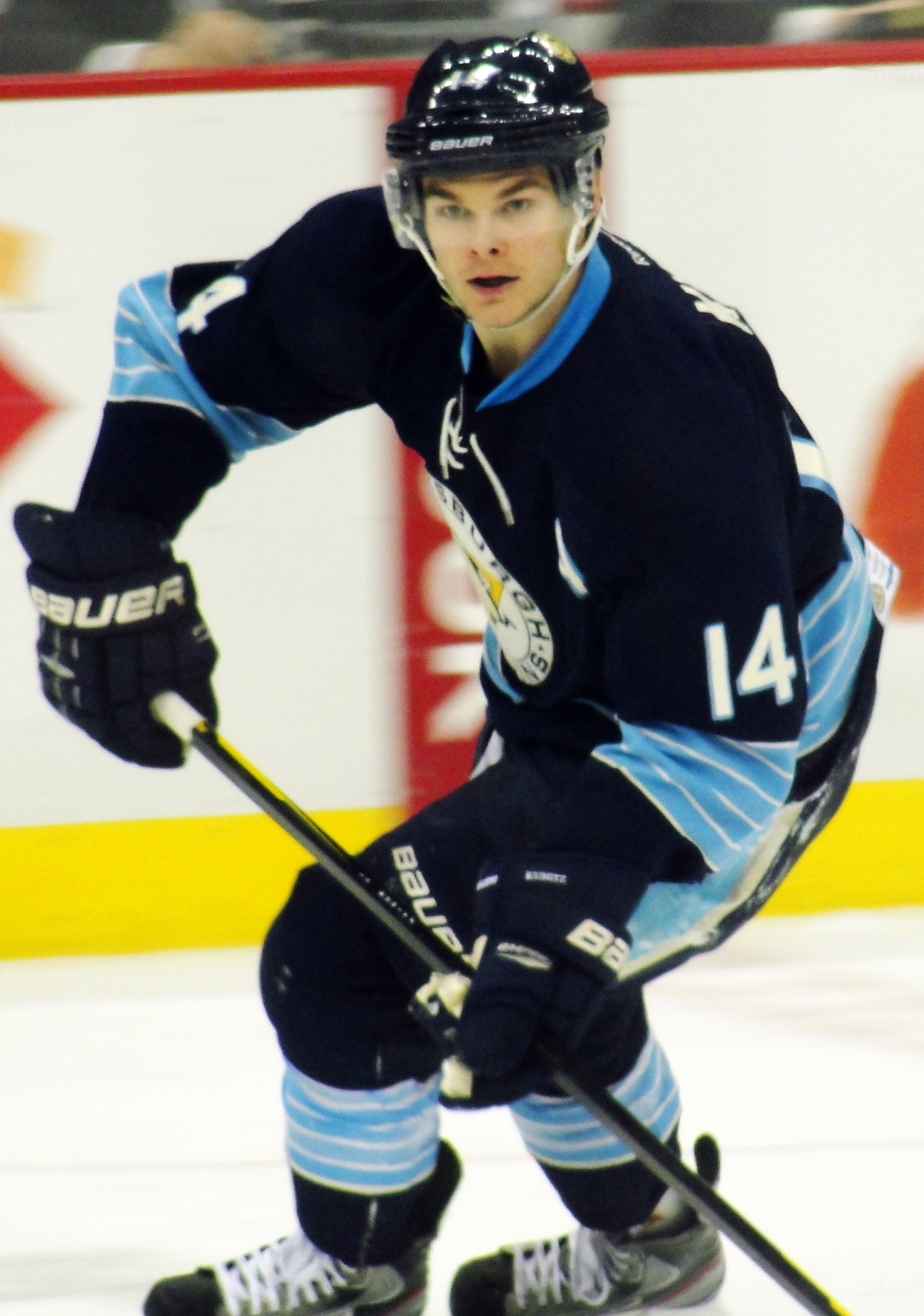 Chris Kunitz of the Pittsburgh Penguins during a game against the Montreal Canadiens at Consol Energy Center in Pittsburgh PA, January 20, 2012.